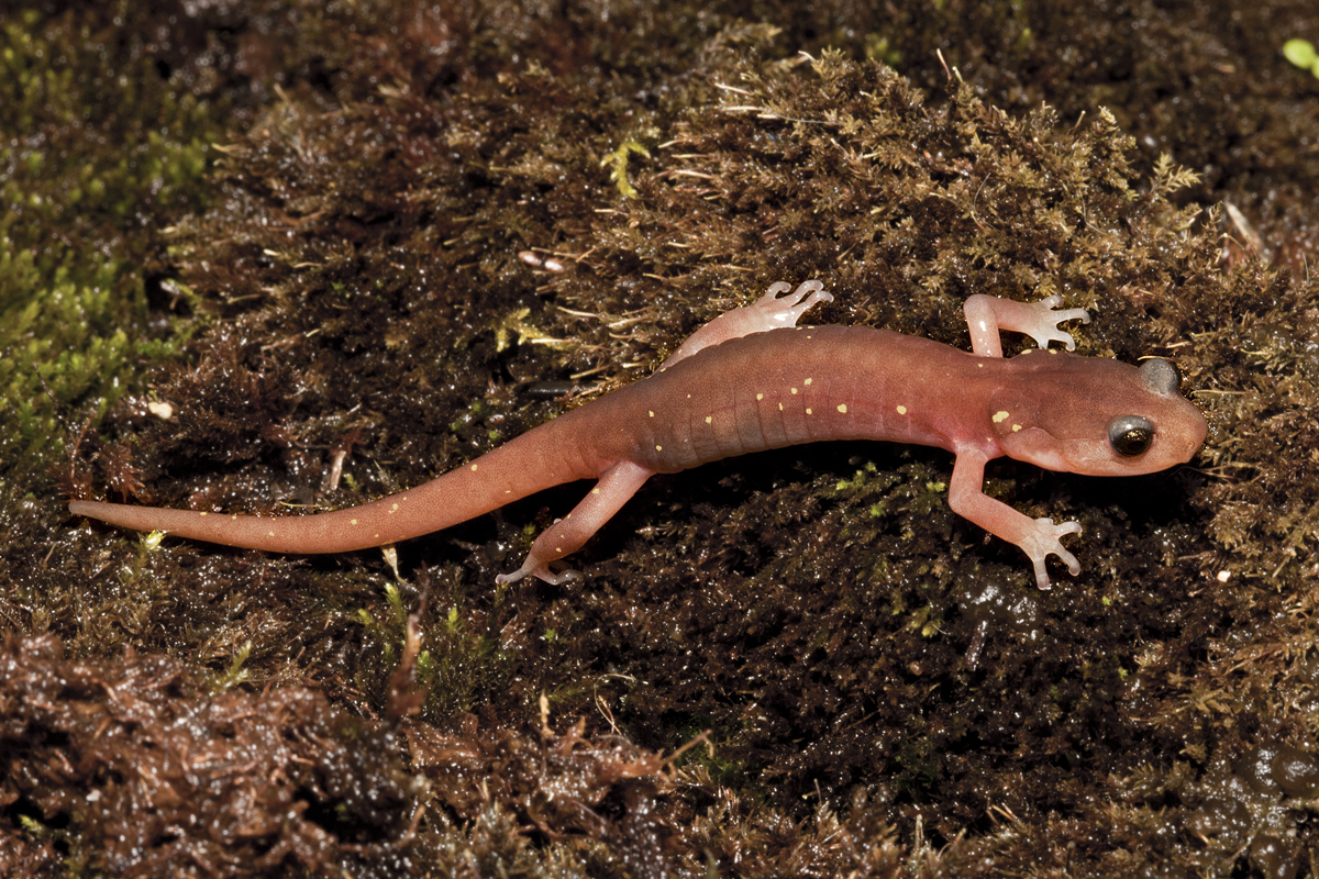 Arboreal salamander (Aneides lugubris) in Morro Bay, California